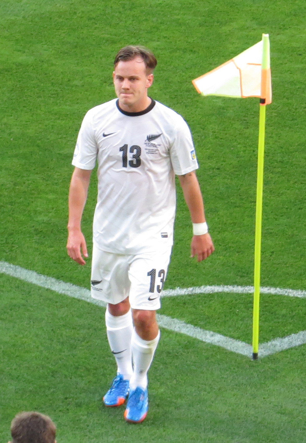 New Zealand All Whites midfielder Chris James playing against Mexico in their 2014 World Cup Qualification match